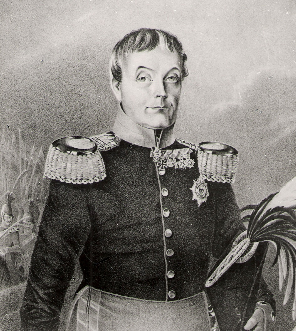 Friedrich August Wilhelm von Brause (1769-1836), lithographie by E. Spengler